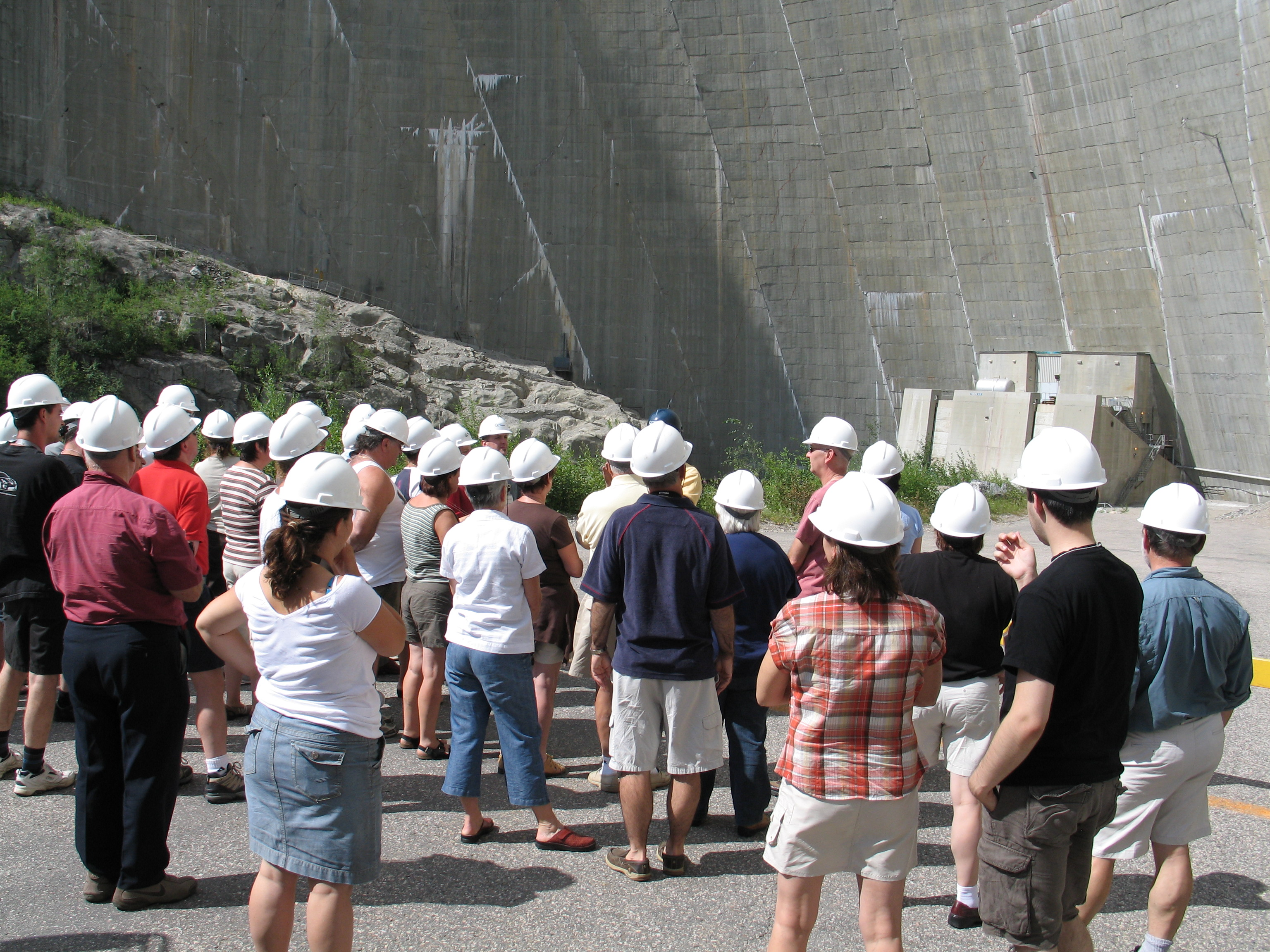 Visitors at the Daniel-Johnson Dam in Quebec, Canada.